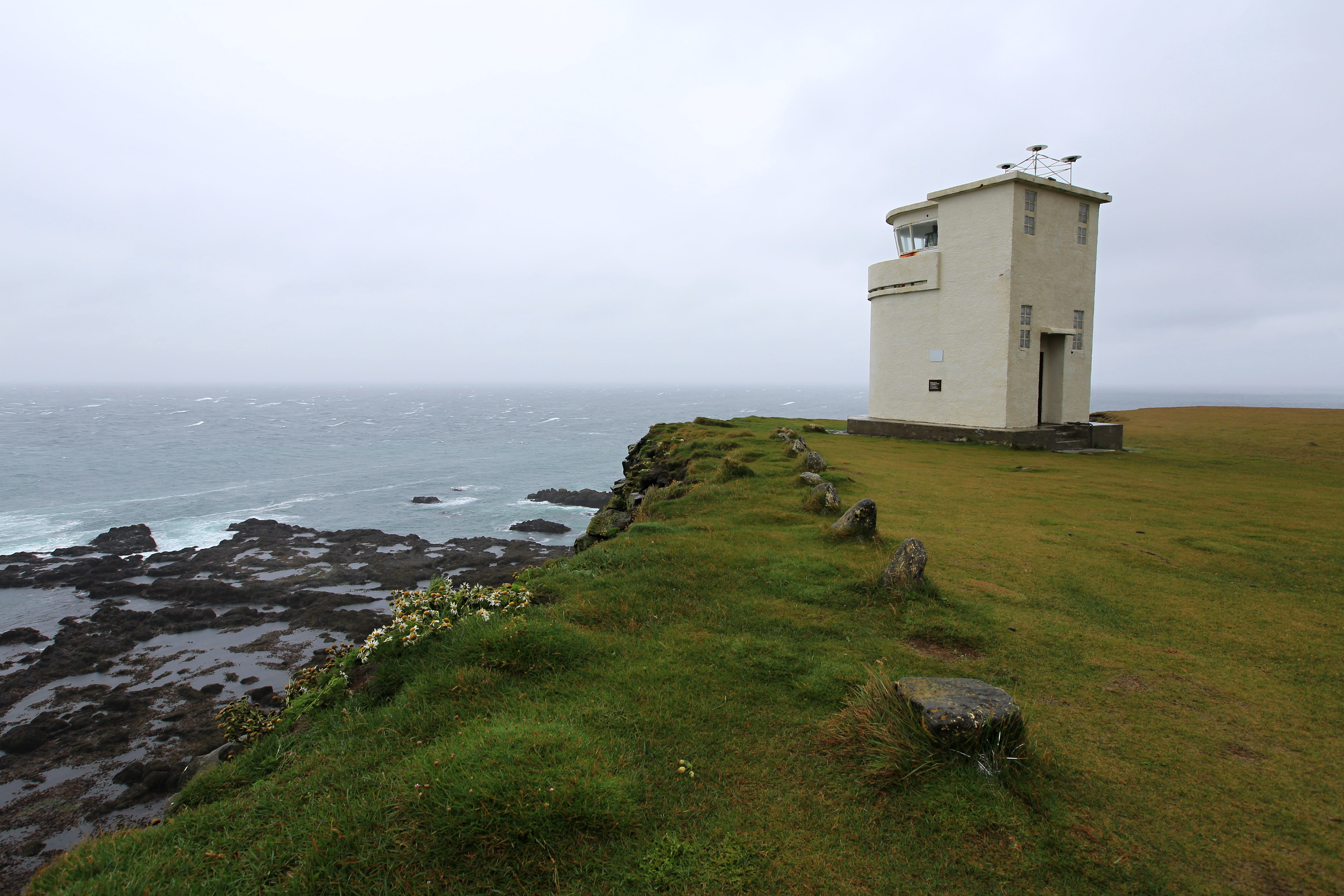 Bjargtangar, the west point of Europe